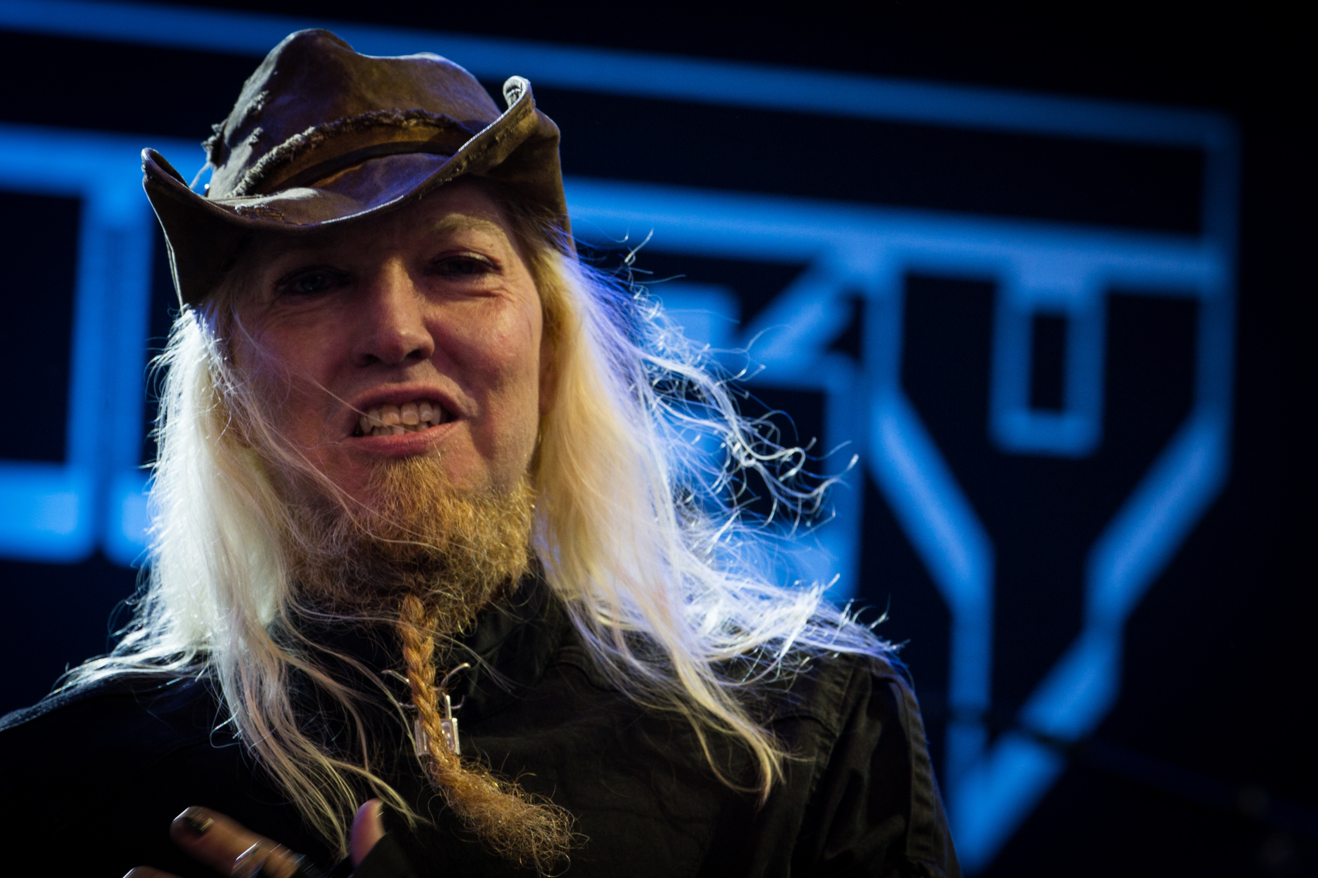 Sanctuary performing live at Rock Hard Festival, May 2015, Gelsenkirchen